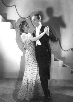 Así es el tango- film argentino de 1937